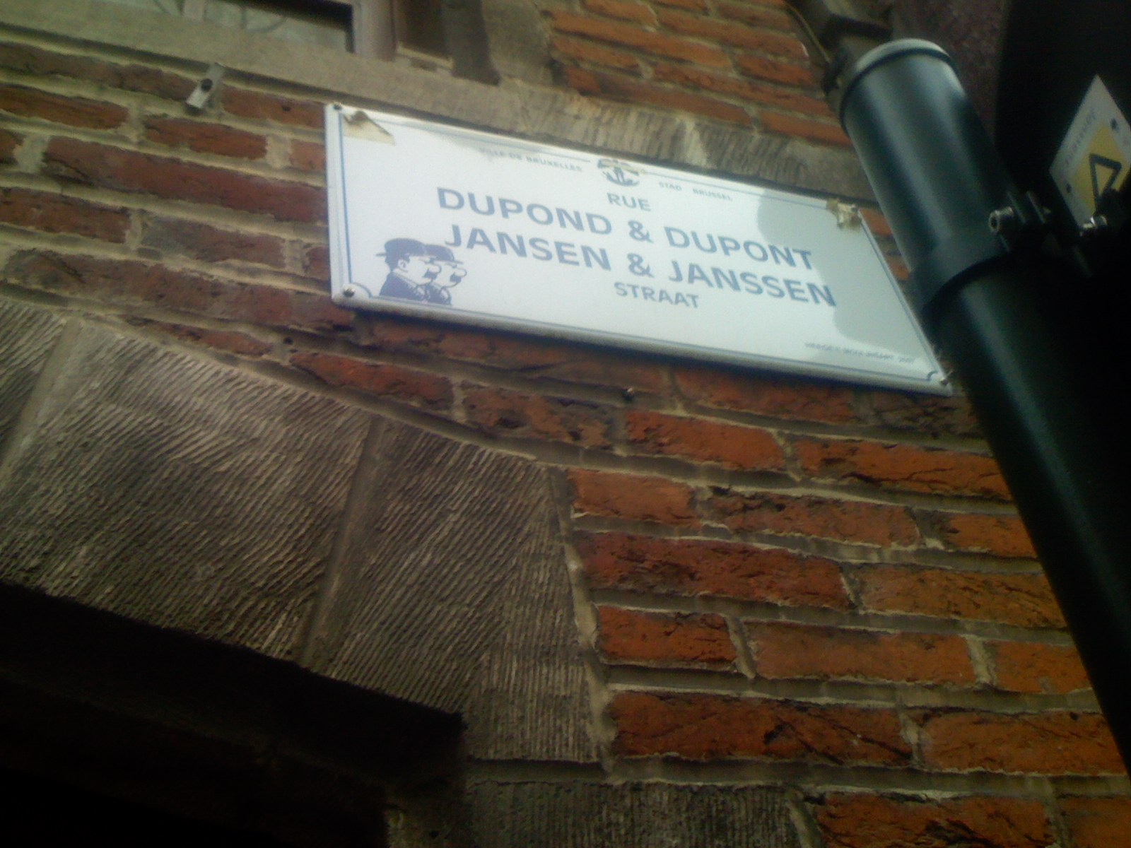 Dupond and Dupont street